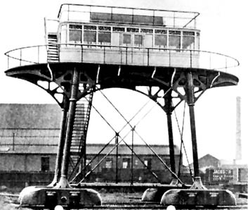 Photo of Daddy Long Legs, vehicle of unusual seagoing railway that existed in Brighton, UK, between 1896 and 1901